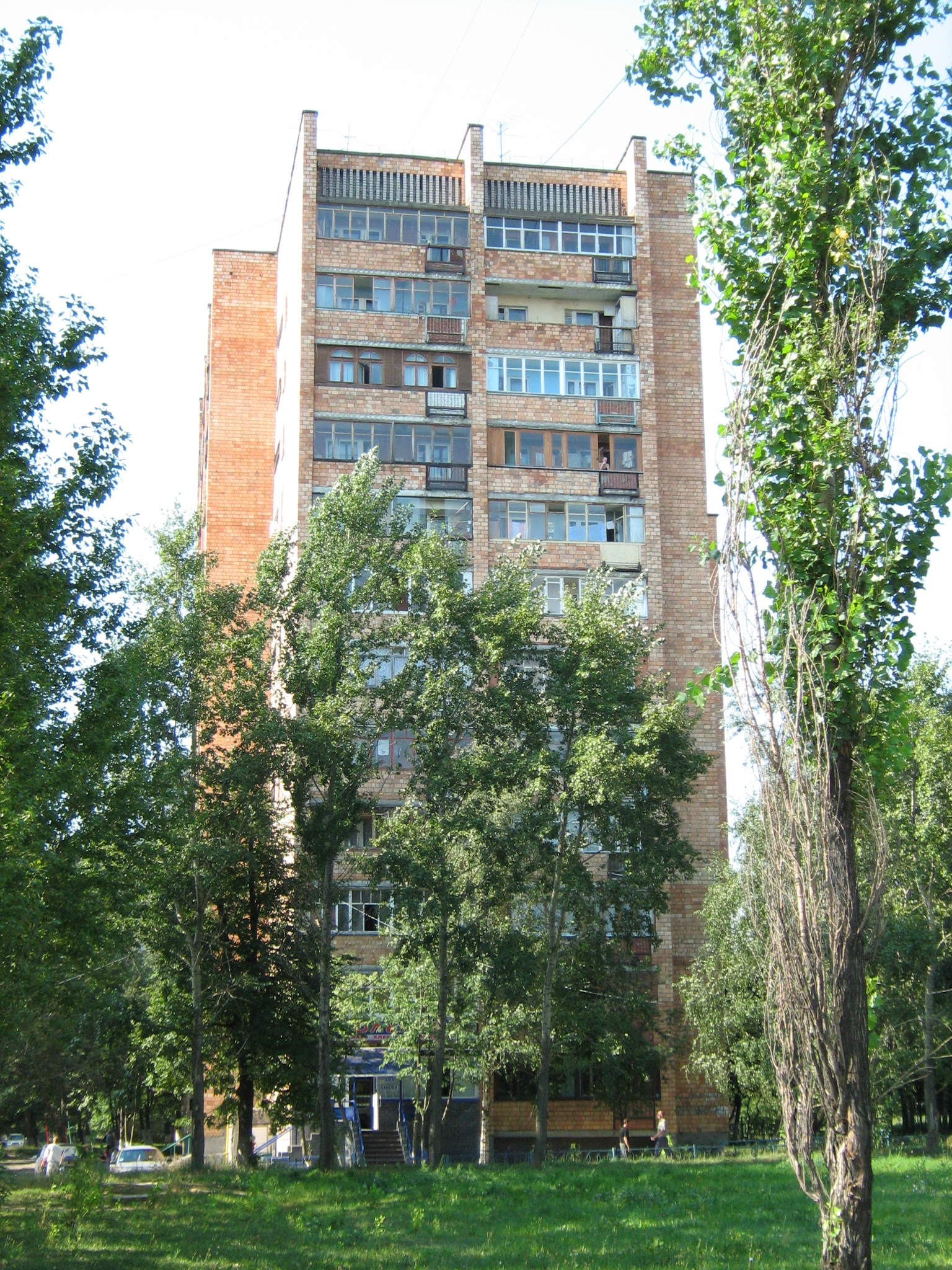 The apartment building in the Scherbinki neighborhood of Nizhny Novgorod where A.D. Sakharov lived in exile 1980-85. His apartment is now a museum.